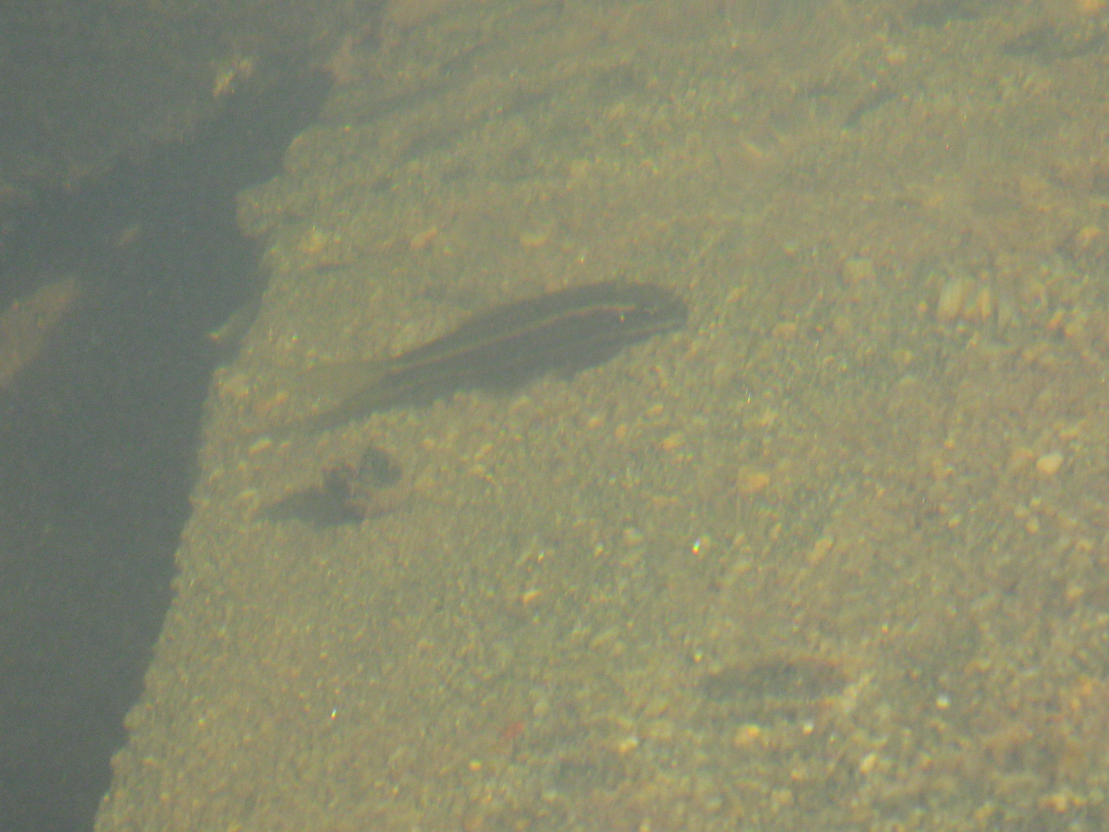 Garra periyarensis a bottom feeder fish from periyar river